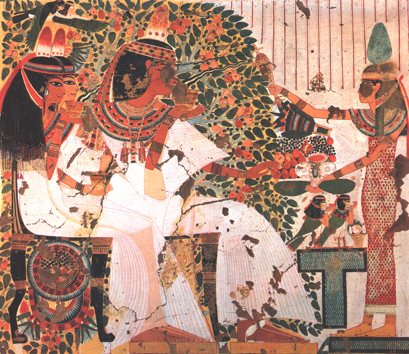 Facsimile, Userhat (TT 51), offering